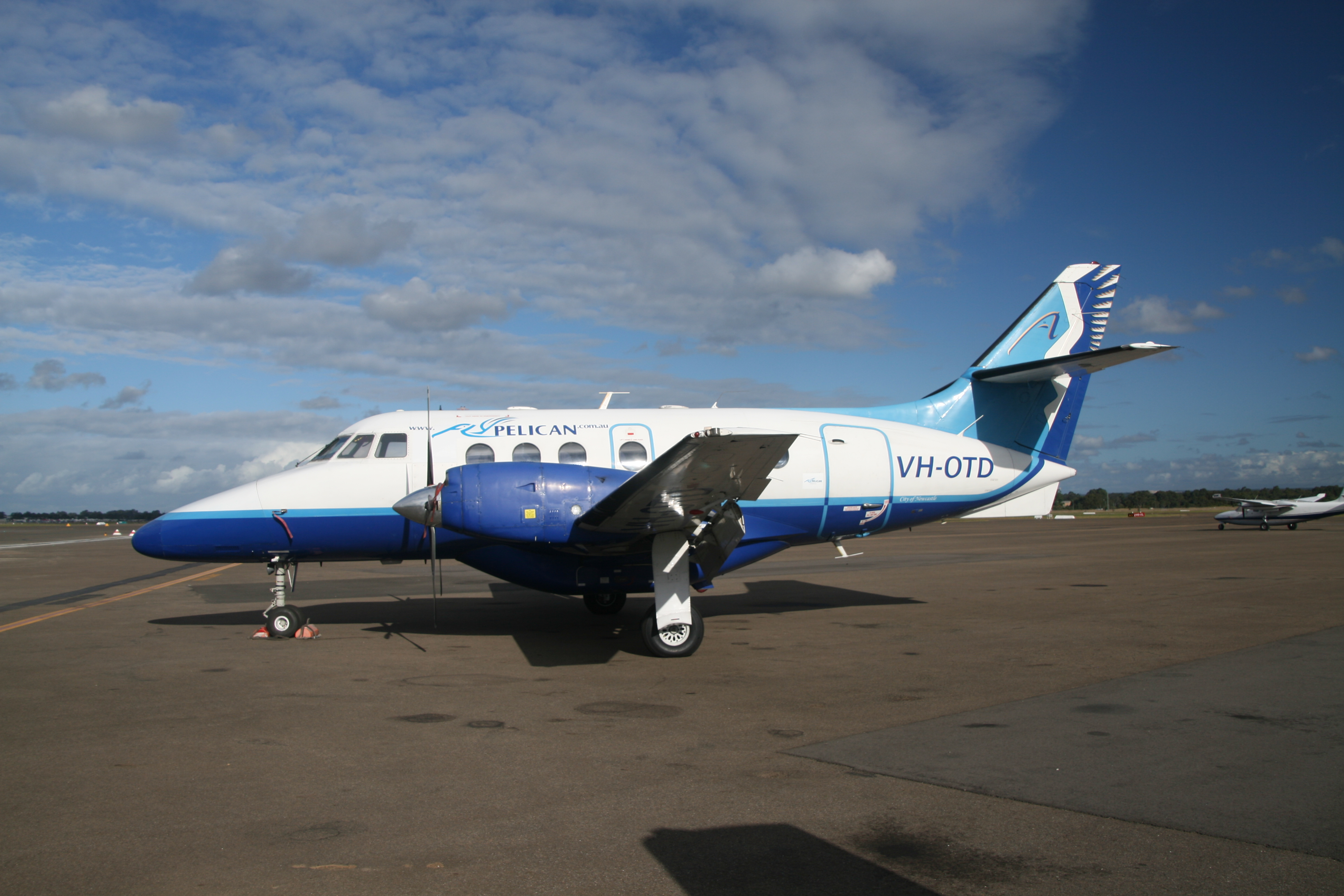 A FlyPelican British Aerospace Jetstream 32. Digital image of VH-OTD taken by YSSYguy at Bankstown Airport in Sydney, Australia on 29 MaY 2014 and uploaded for use in the FlyPelican article. YSSYguy (talk) 23:02, 23 February 2017 (UTC)